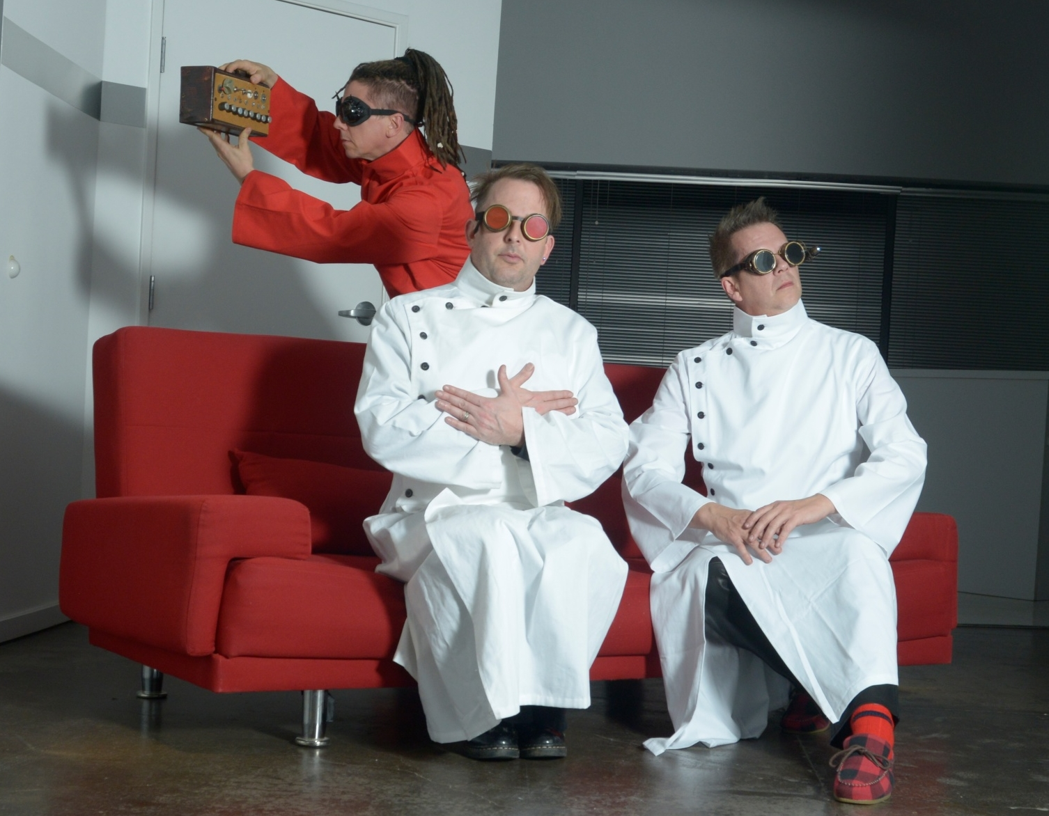 Information Society promo shot 01